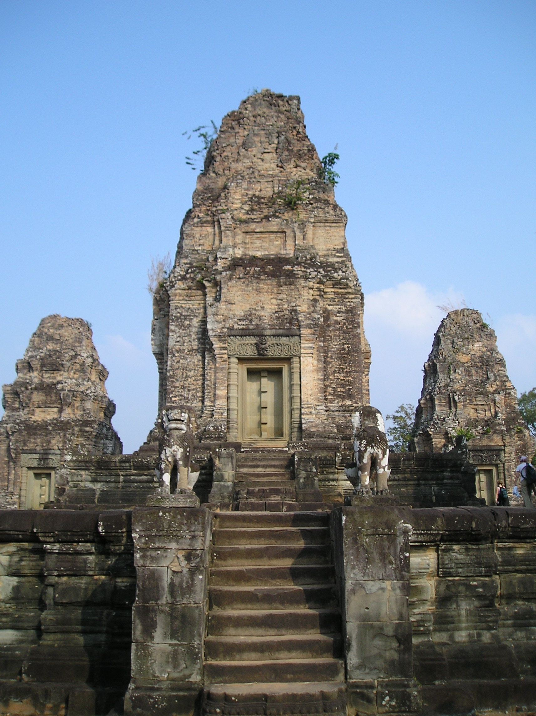 East Mebon